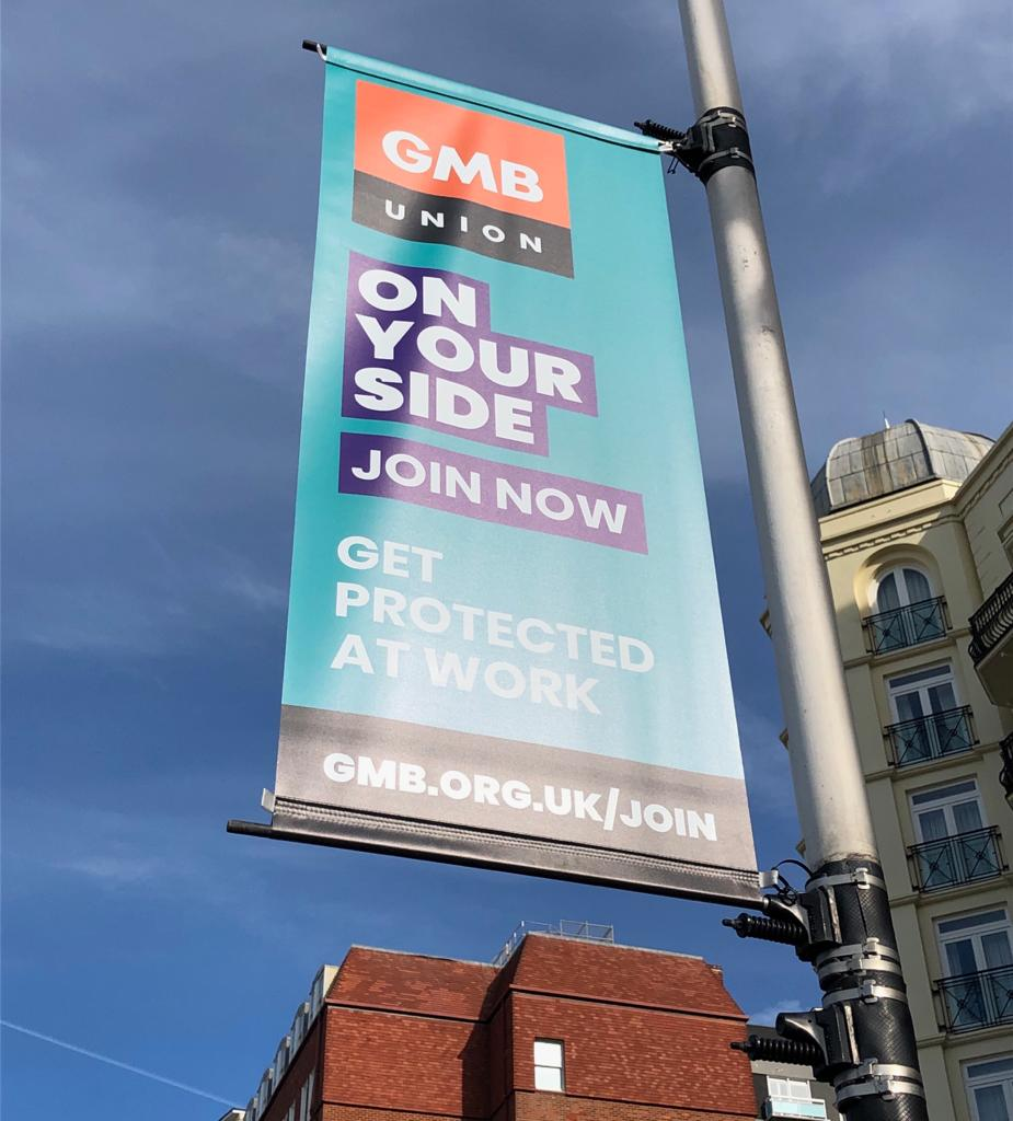 GMB Union lampost advert in Brighton in 2019